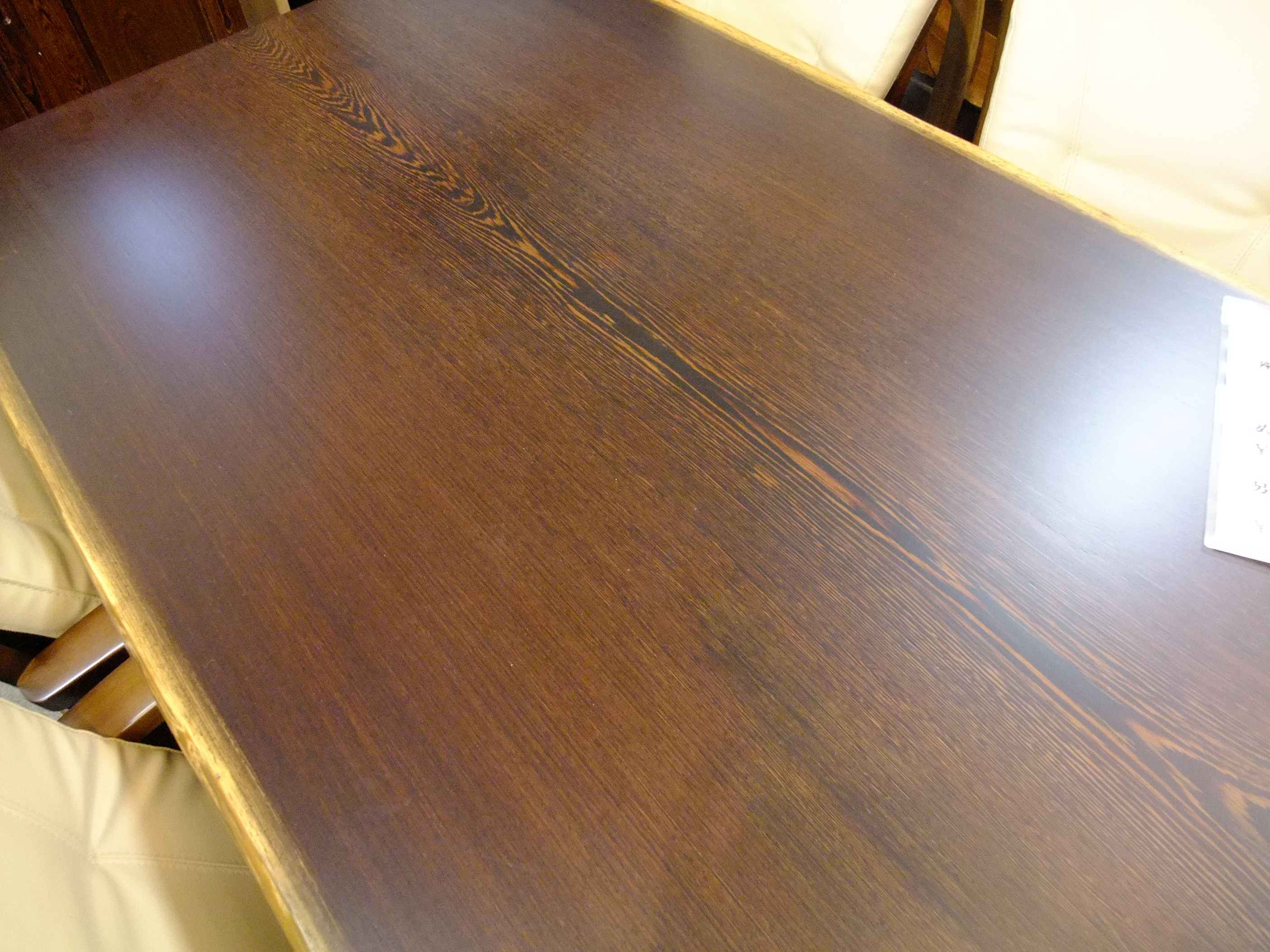 Senna siamea table